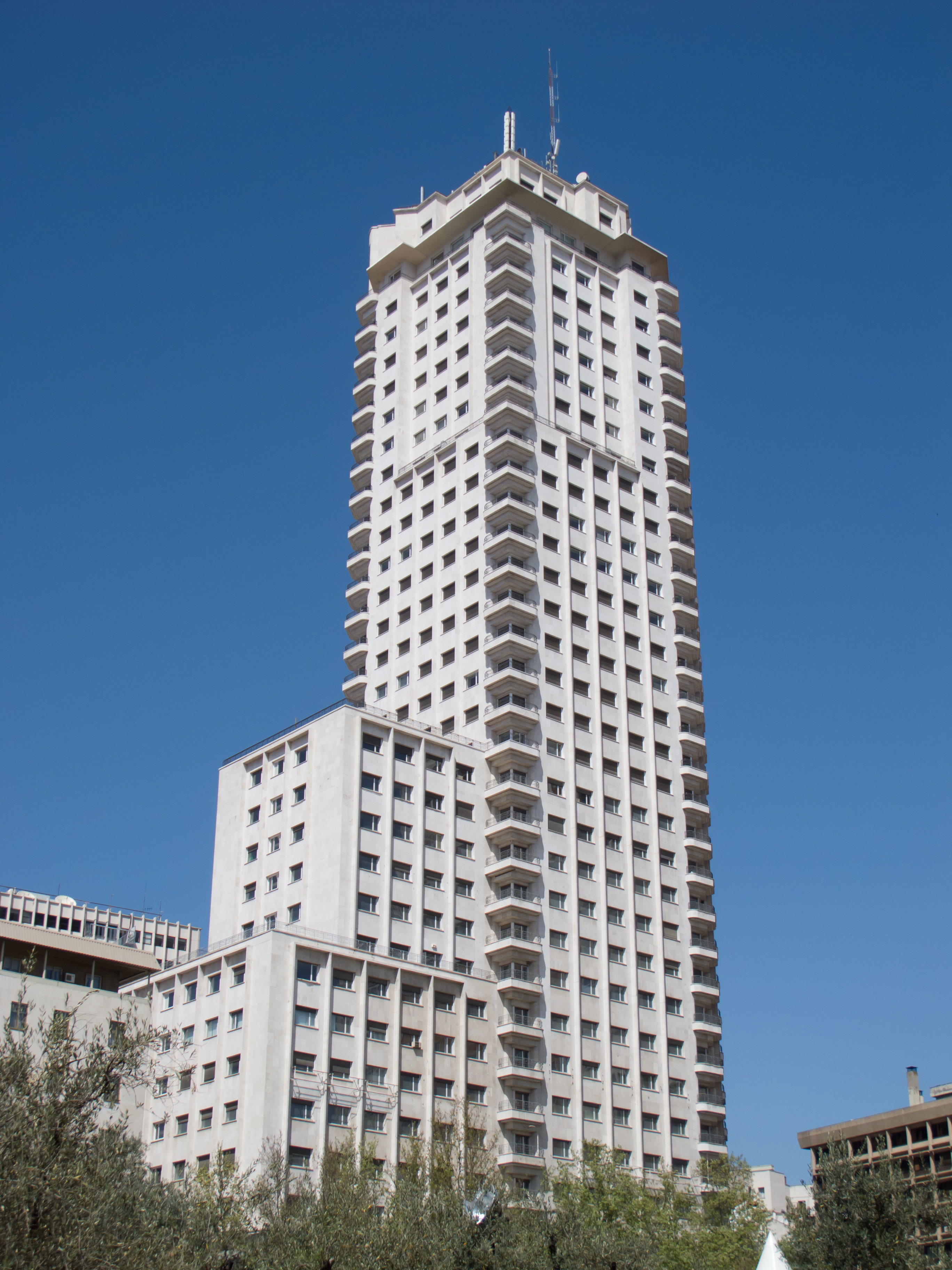 Tower of Madrid, Madrid, Spain.